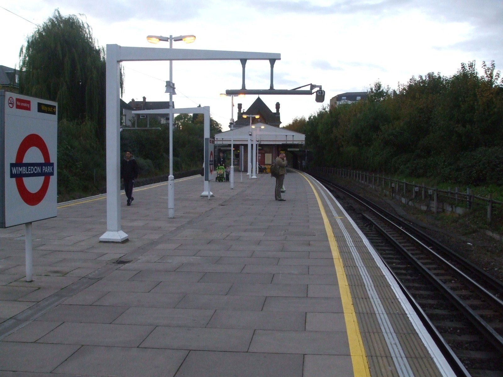 Wimbledon Park tube station looking north